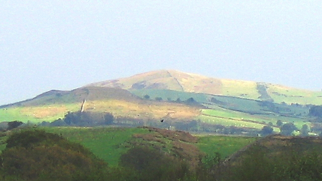 Trichrug seen from the southeast. Trichrug is top centre with the chain of Carn Powell and Carreglwyd below and to the left.